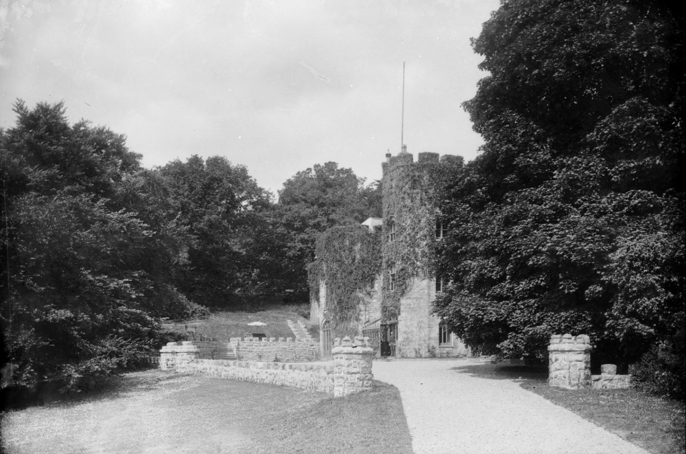 1 negative : glass, dry plate, b&w ; 12 x 16.5 cm.